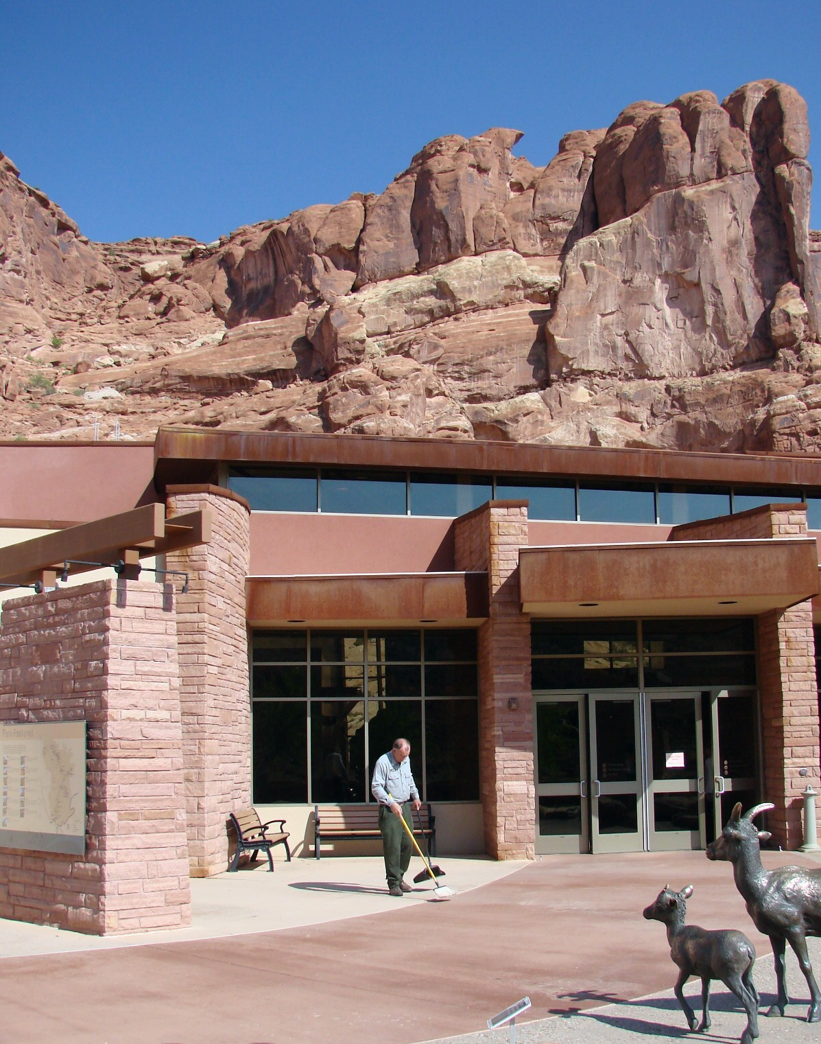 (1 in a multiple picture set) At the Park Visitors' Center we got our first surprise. I had imagined that the arches were on the desert floor, but they are about 600 feet above the pass that brings you into the park. The angles ledges above the building are the route of the highway leading up to the arches.